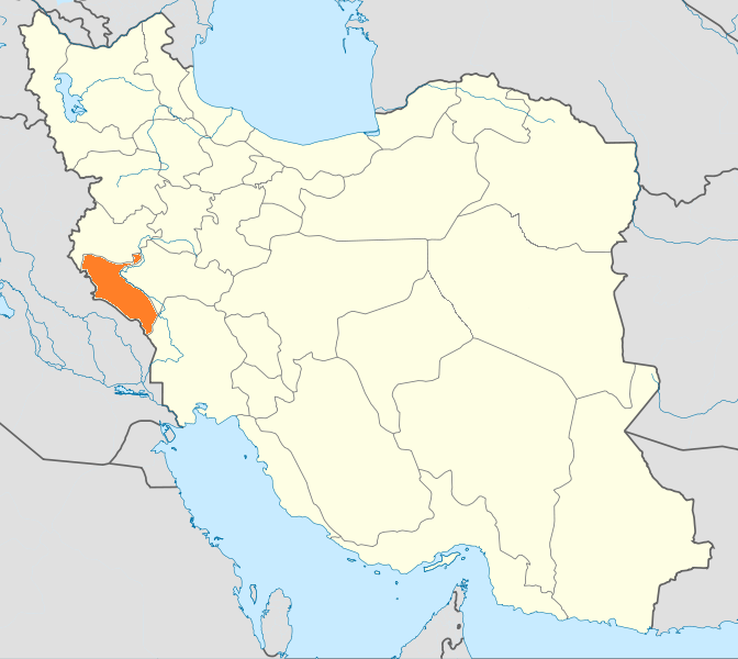 Locator map of Iran